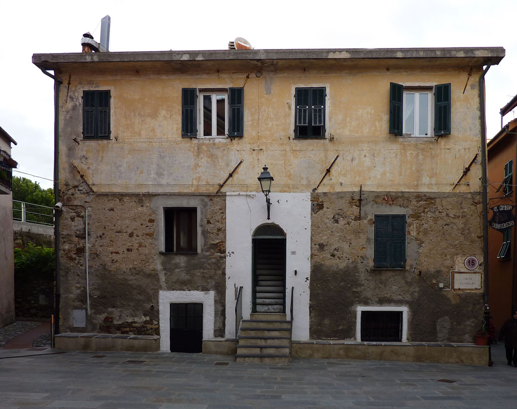 Giuseppe Garibaldi square, center of the San Lorenzo village. Liguria, Italy